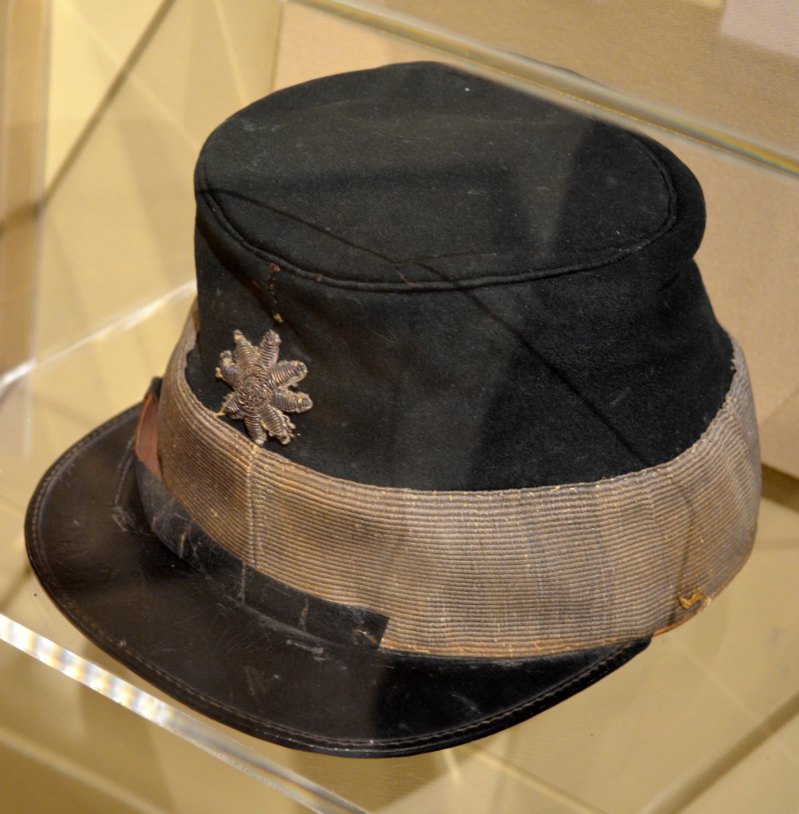 Photo of the cap of the General Pietro Roselli donated by the family Roselli Lorenzini to the Museum of the Risorgimento - Collection Roselli Lorenzini.